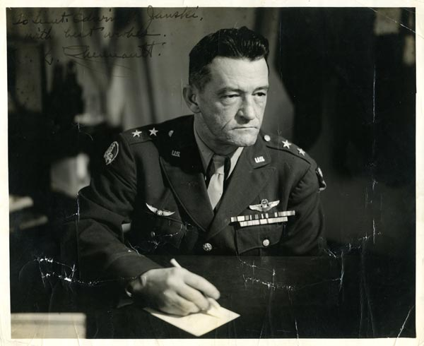 Claire Chennault Converted & cropped from This image or file is a work of a U.S. Air Force Airman or employee, taken or made as part of that person's official duties. As a work of the U.S. federal government, the image or file is in the public domain in the United States.